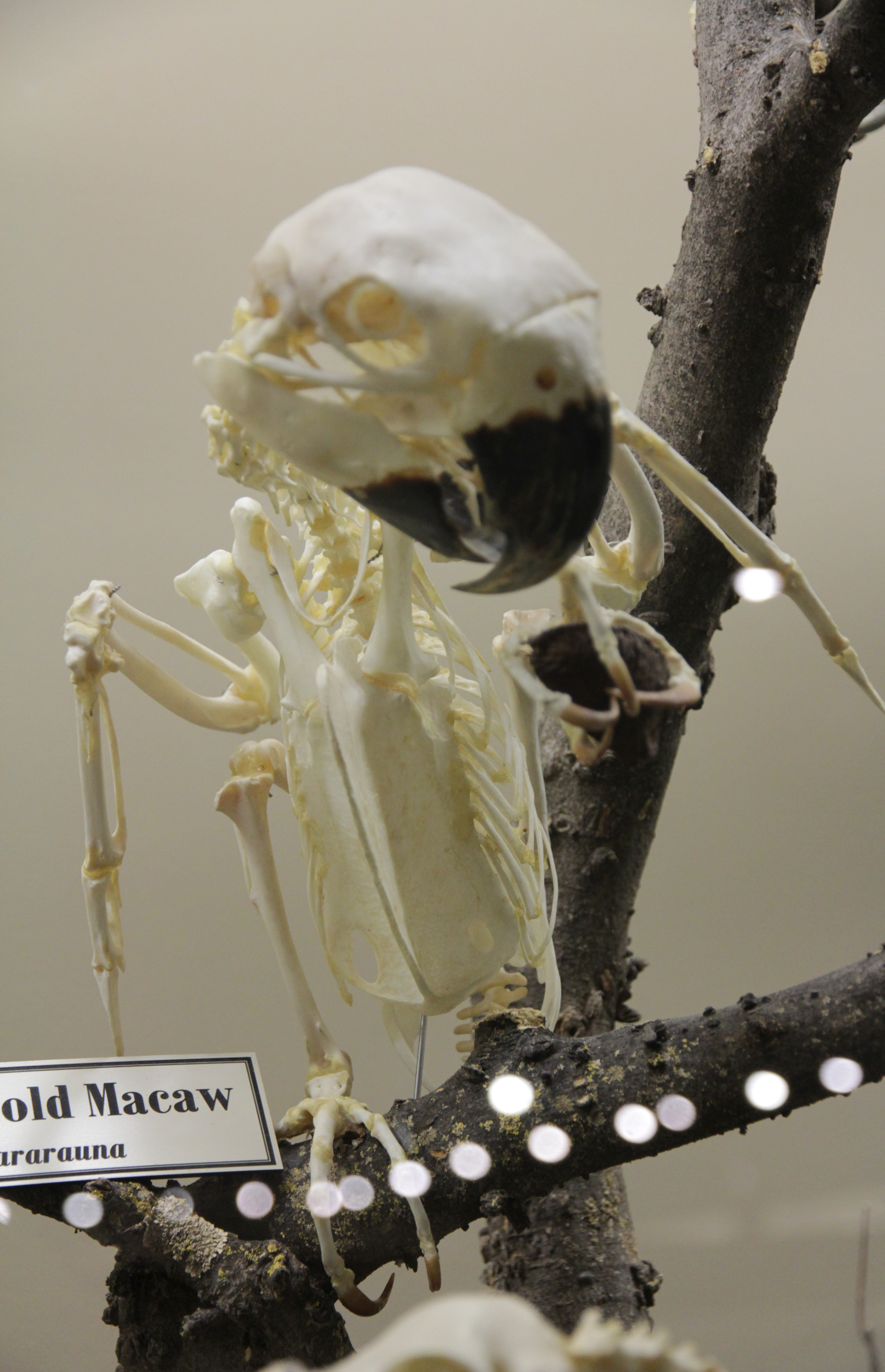 Blue and gold macaw skeleton on display at the Museum of Osteology.